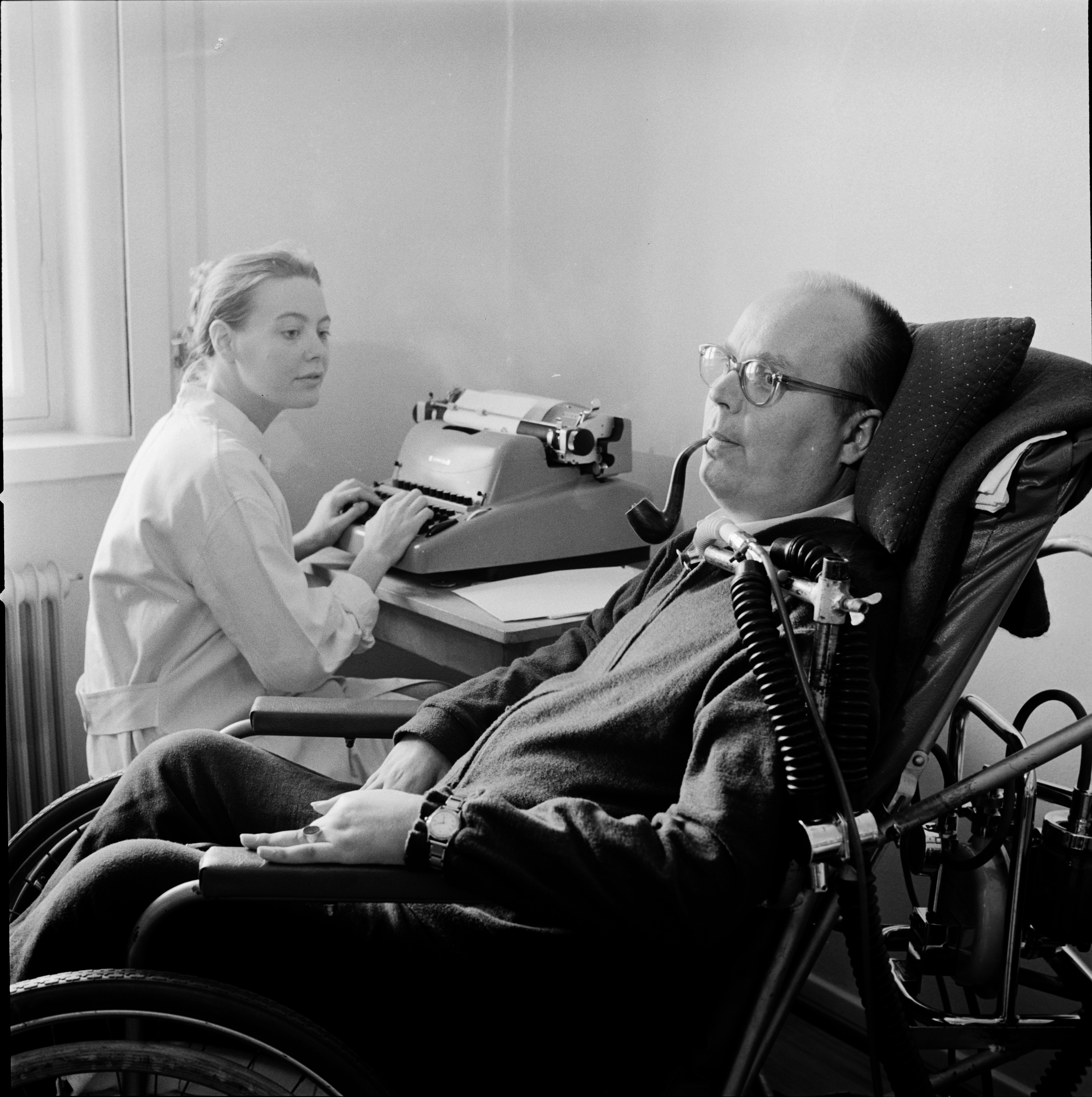 Photograph of the Finnish writer Olli Aro (1920–1968) with his respirator at Aurora Hospital in Helsinki, dictating to the secretary Kaarina Mahlamäki of the Patient Association.